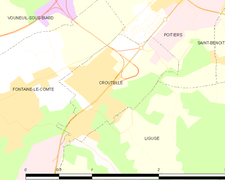 Map of French municipality Croutelle